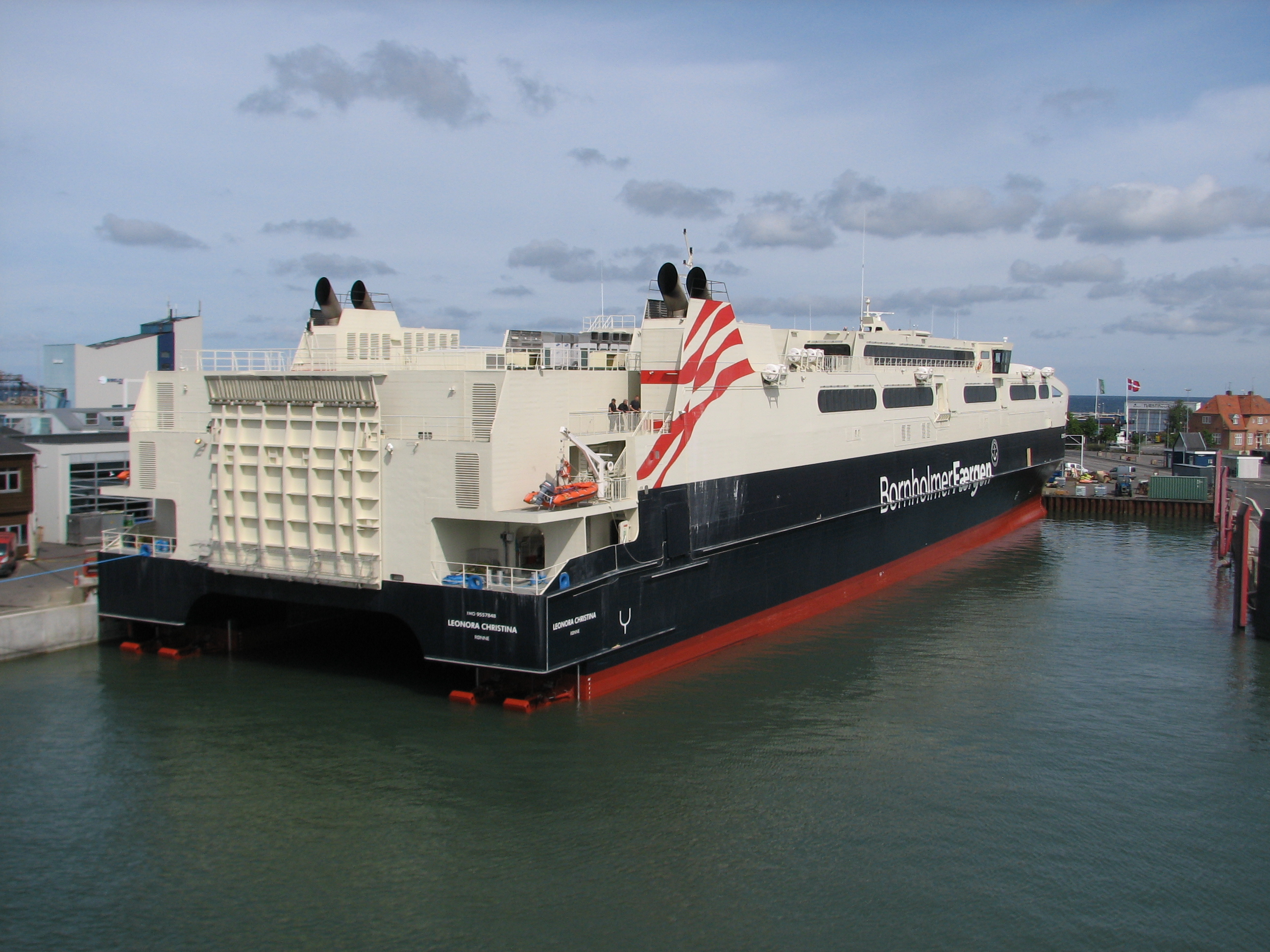 Leonora Christina in the harbour of Rønne